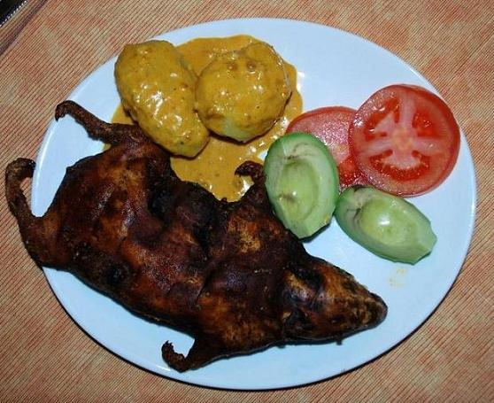 « Cuy » (guinea pig) served grilled in Ecuador (eaten as a delicacy in Ecuador & Peru), but there isn't really too much meat.